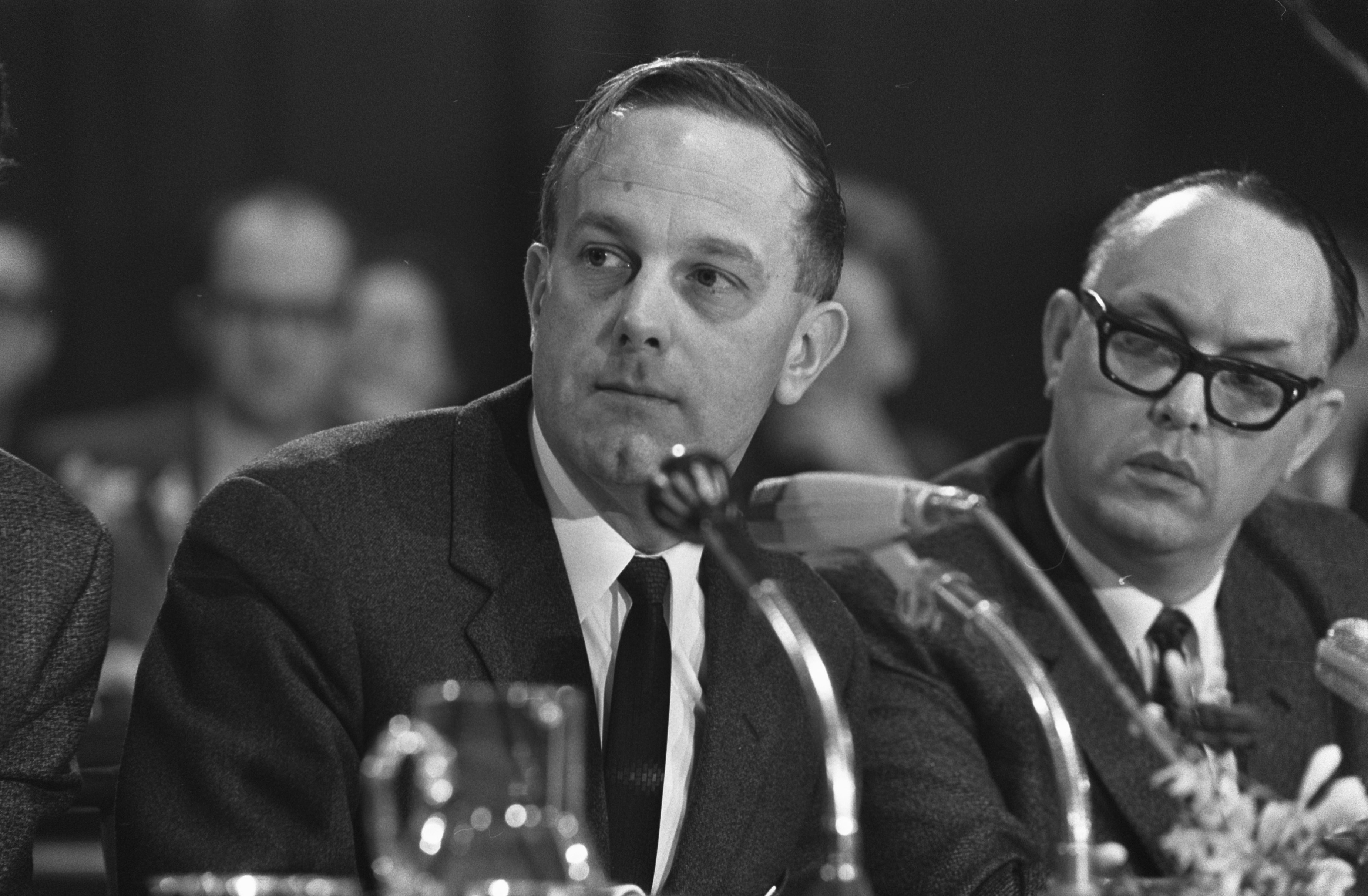 Piet Steenkamp & Otto ter Reegen during the Pastoral Council in Noordwijkerhout (The Netherlands), January 1970